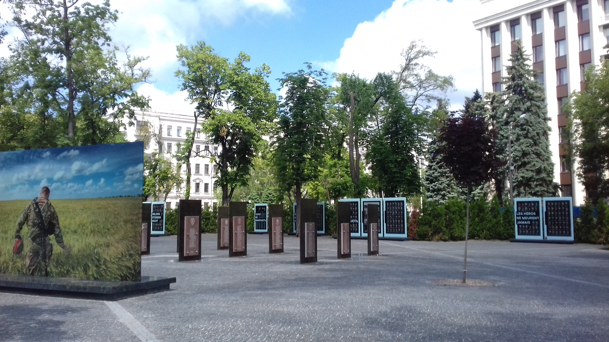 Memorial to the victims of the Russian-Ukrainian War (ATO) to the heroes - defenders of Ukraine (Dnipro), 2018